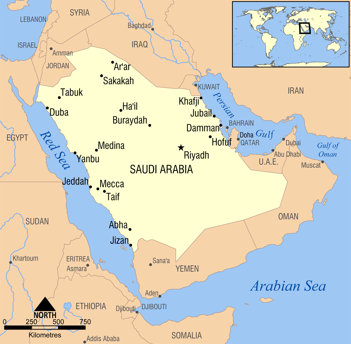 A simple map showing the major cities in Saudi Arabia. Note that the border is pre-2000 Treaty of Jeddah. Created by NormanEinstein, February 10, 2006.